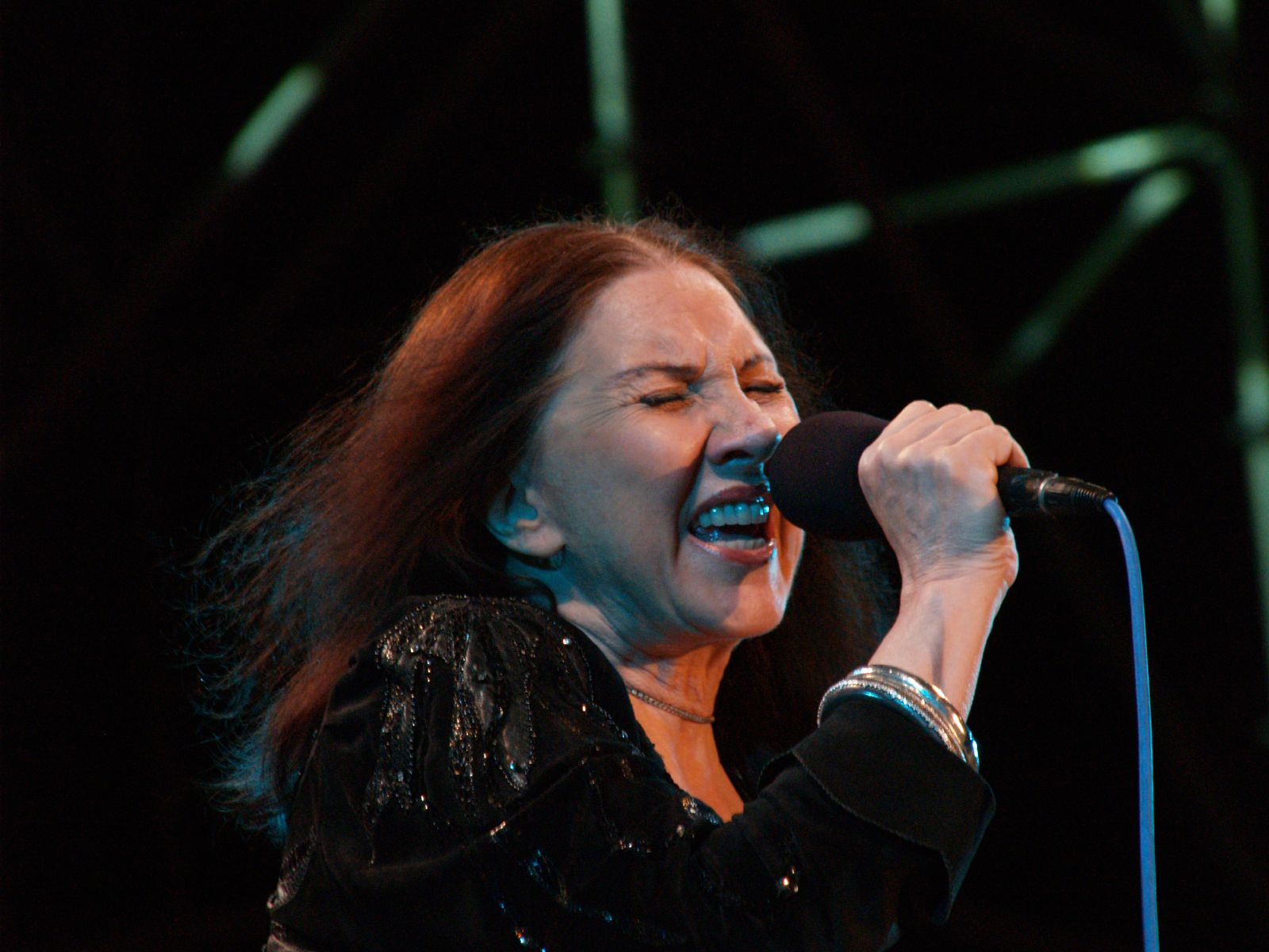 Roy Hargrove